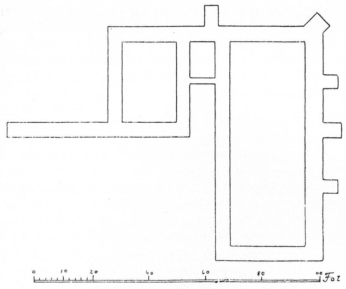 Drawing of the monastery in Örebro, Sweden